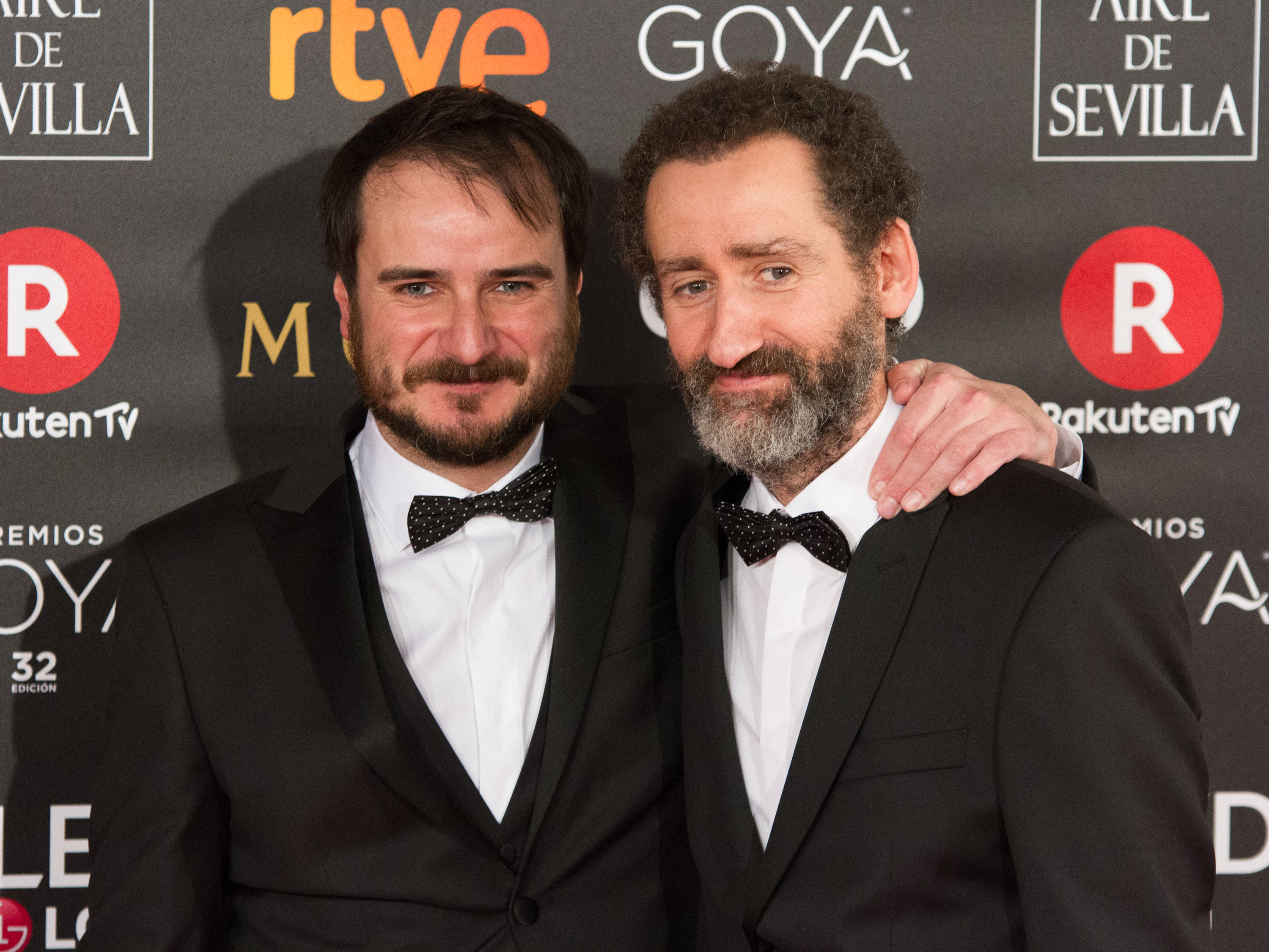 Aitor Arregi and Jon Garaño at the 32nd Goya Awards, 2018.